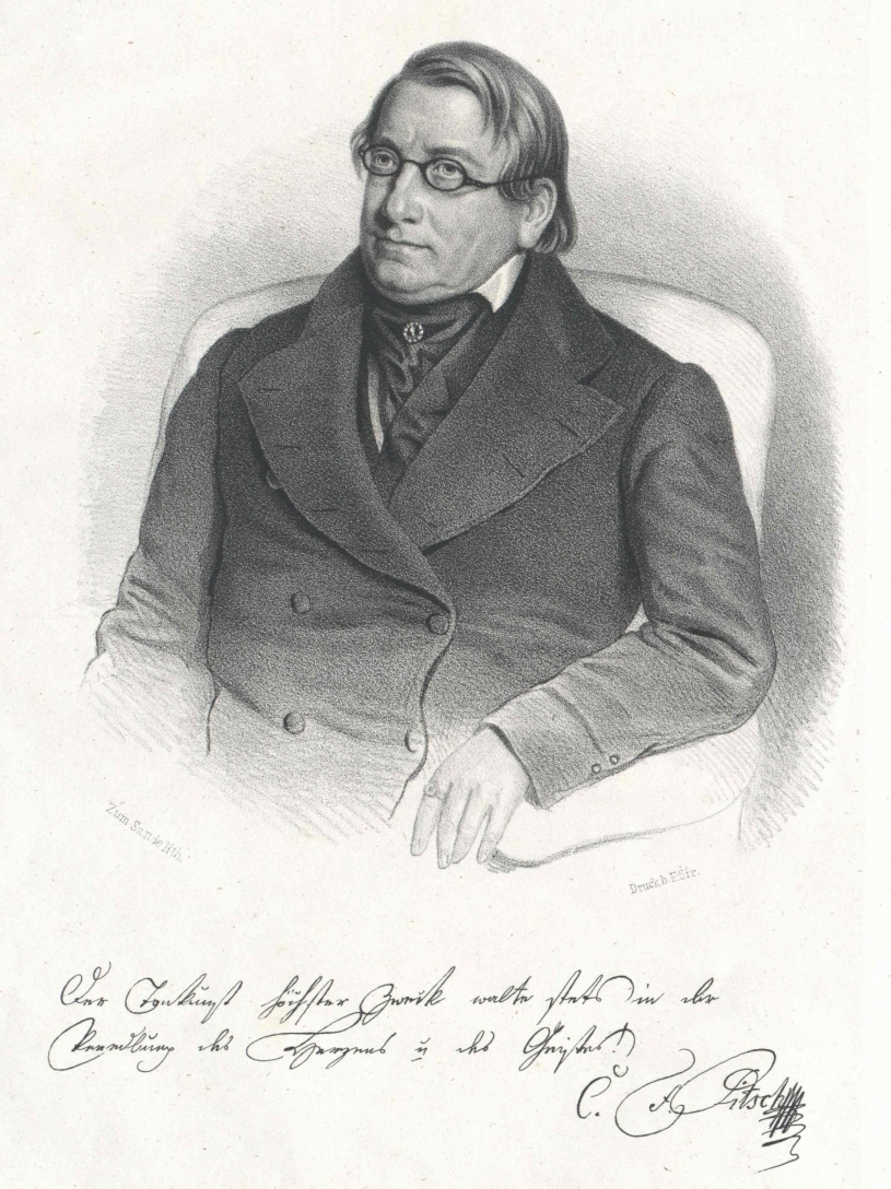 Carl Franz Pitsch, czech composer, organist